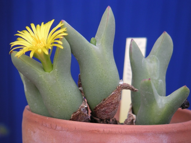 Personnal collection